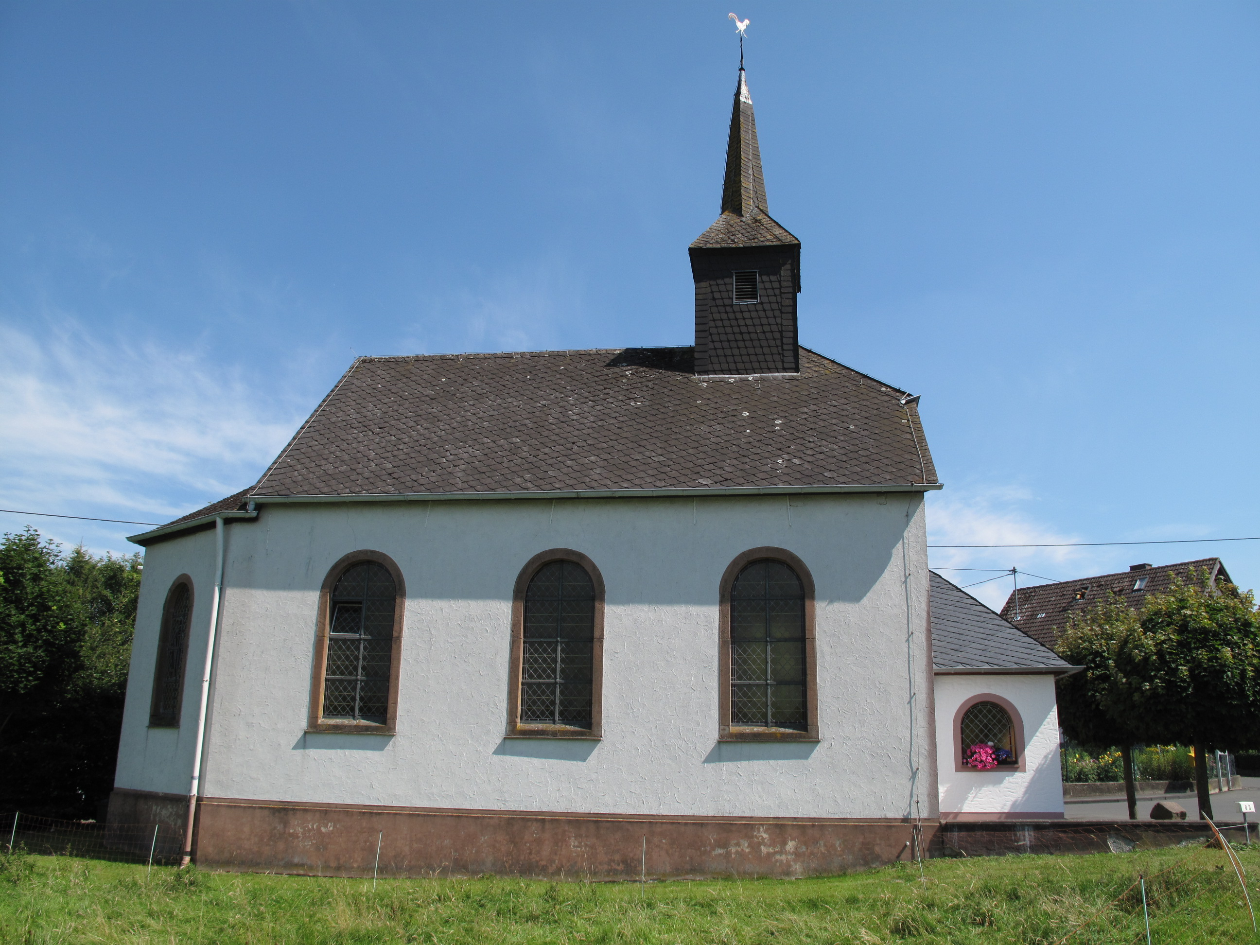 Dankerath, chapel